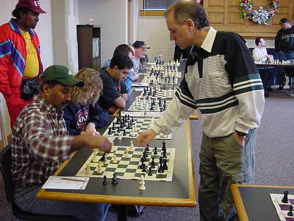 IM Calvin Blocker giving a Simultaneous Exhbition in Akron, Ohio, 2008.